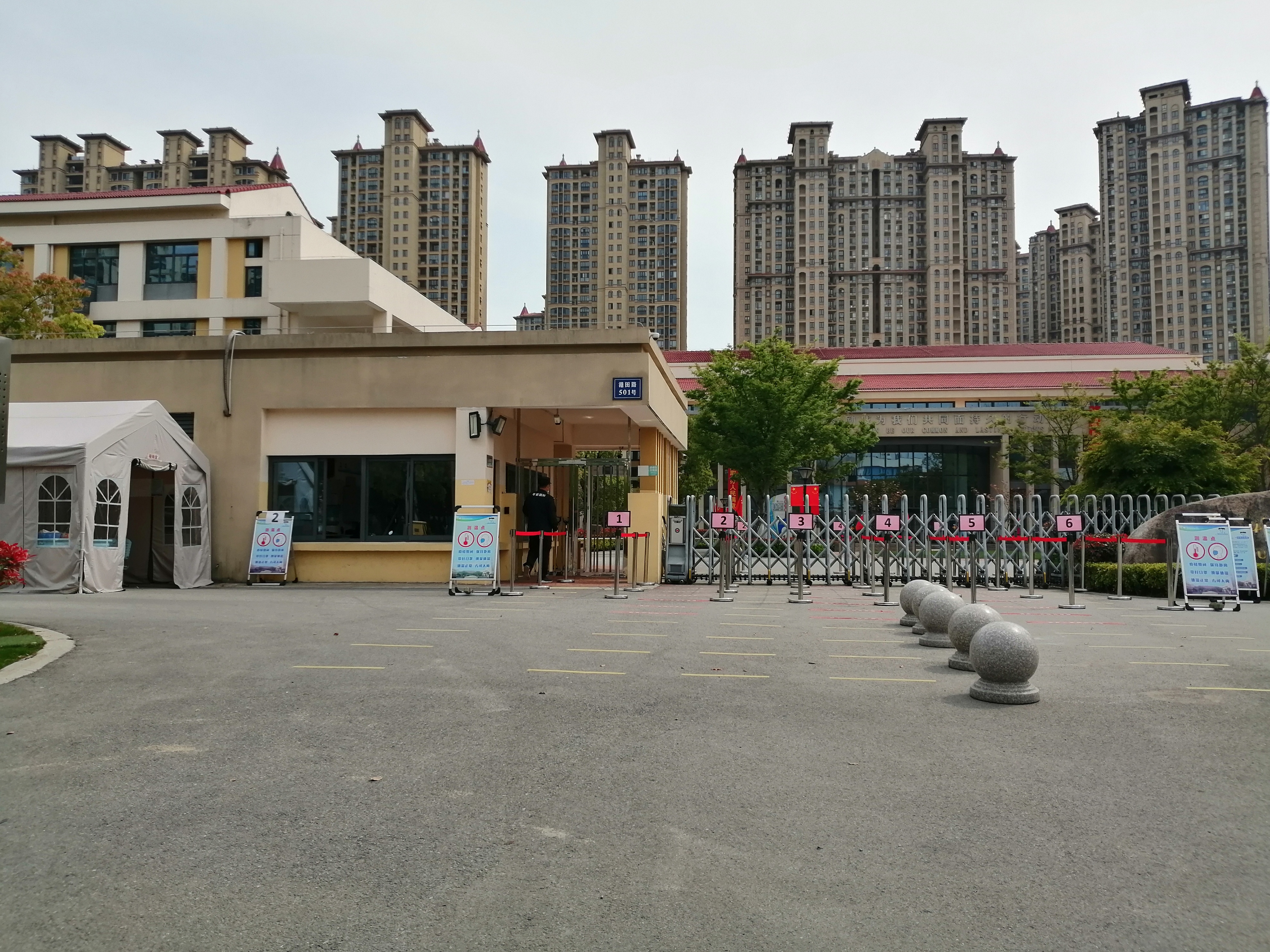 All students should check temperature before enter the gate of school. If his/her temperature is over 37.3, he/she will refused to enter. Mask is also required.